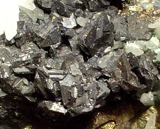 Djurleite, Quartz, Pyrite Locality: Steward Mine, Butte, Butte District, Silver Bow County, Montana, USA (Locality at ) Size: 9.0 x 6.2 x 4.0 cm. Djurleite is an uncommon copper sulfide closely related to chalcocite. It is very rarely reported and offered from the famous and now-closed mines at Butte. Lustrous, sharp, steel-gray, twinned prisms of djurleite to about 6 mm are richly concentrated in clusters and are complimented by sprays of milky quartz needles and lustrous, brassy pyrite on this superb, old-time specimen from the Steward Mine. Many of the djurleite crystals have interesting, faint, iridescent tarnish. The matrix is mostly pyrite on this specimen. Very seldom available in this richness and quality from this historic locale. Ex. Bill Smith and George Feist (# 2616) Collections and according to the accompanying label, the piece dates to the early 1960s.